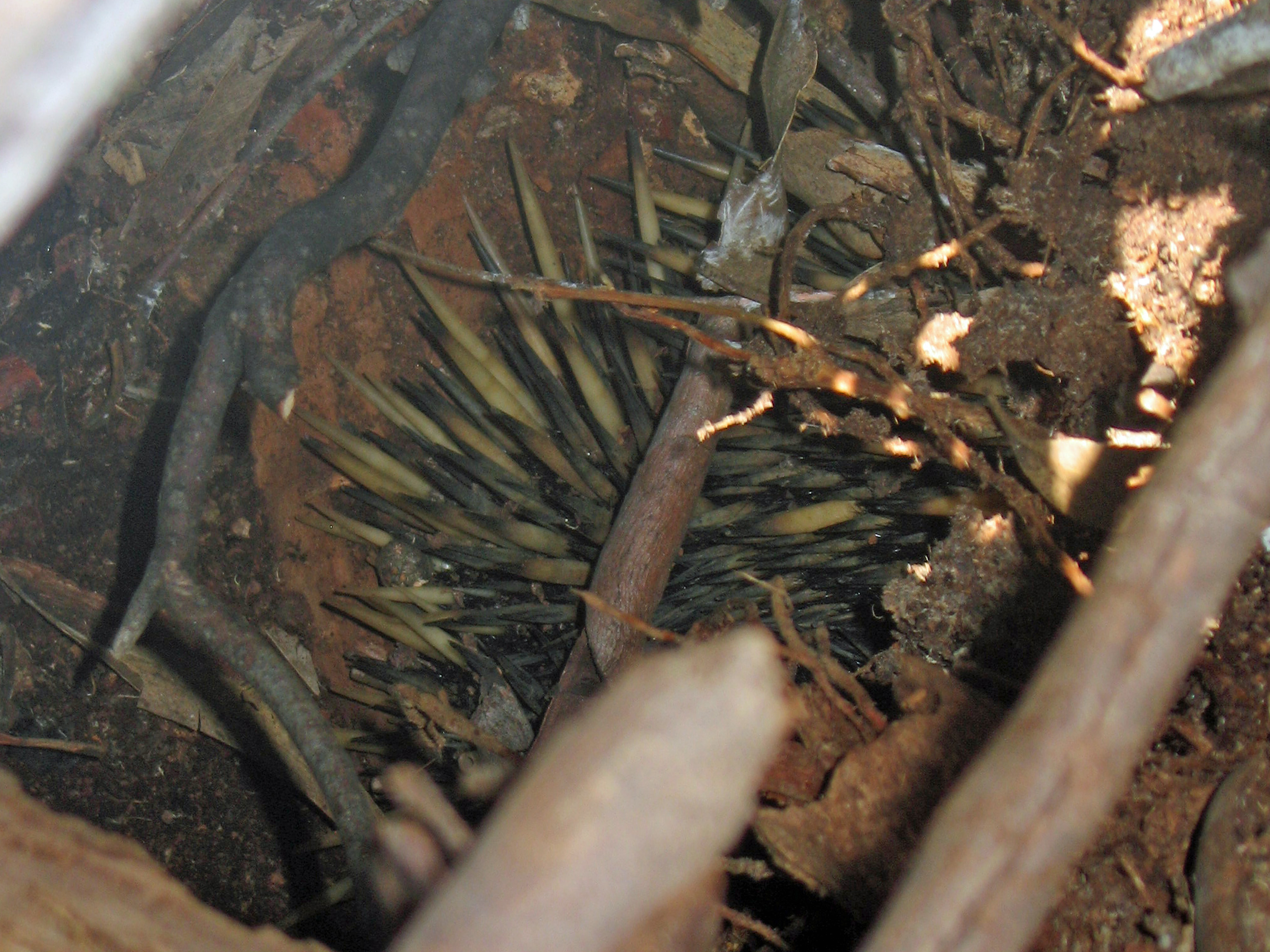 Short-beaked echidna (Tachyglossus aculeatus); Saw this guy out and about but he went into his burrow before I could get a picture